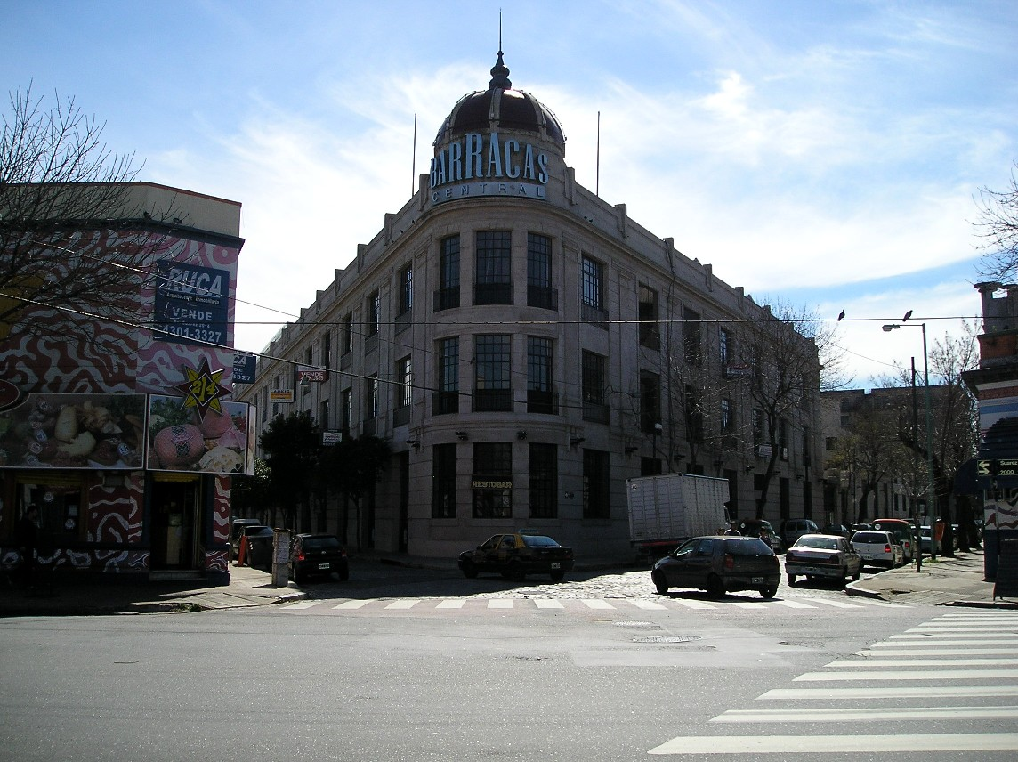 The former F. Piccaluga & Cia. textile plant, built in 1920 and redeveloped in 2006 by BA Real Estate S.A. as lofts. Located in Lanín Street, Barracas, Buenos Aires.